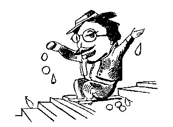 Edward_Lear_A_Book_of_Nonsense_07.jpg